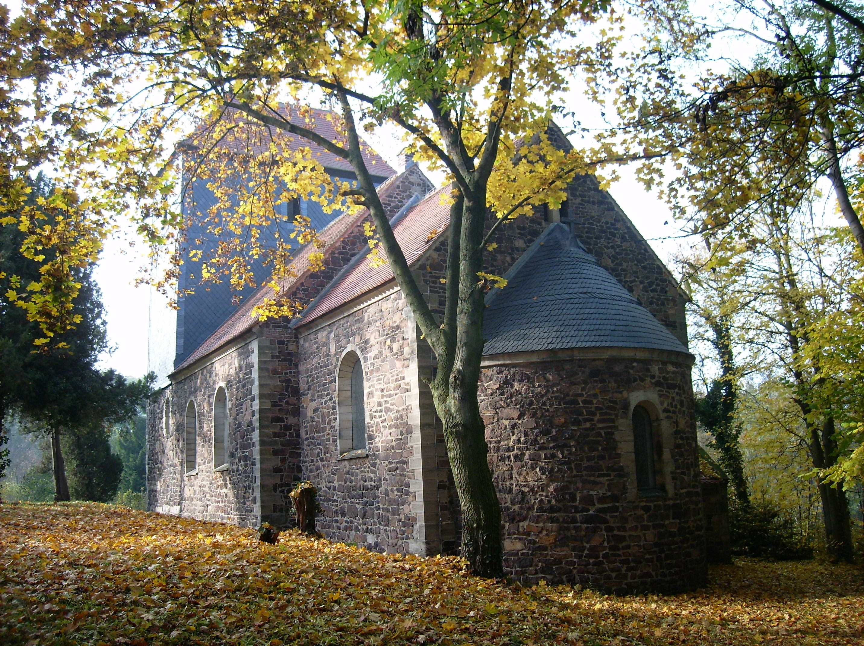 Church in Krosigk (Petersberg, district of Saalekreis, Saxony-Anhalt)